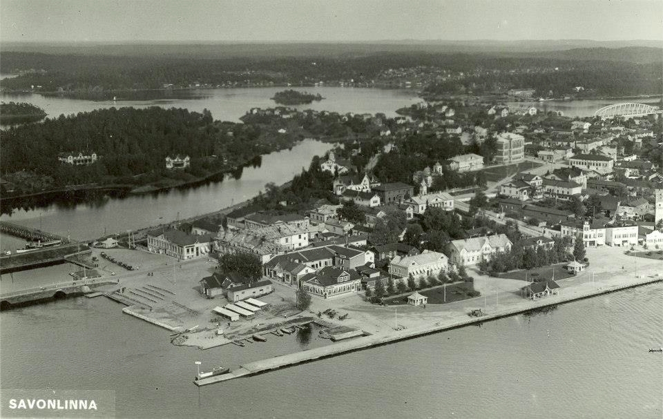 Savonlinna, Finland from air